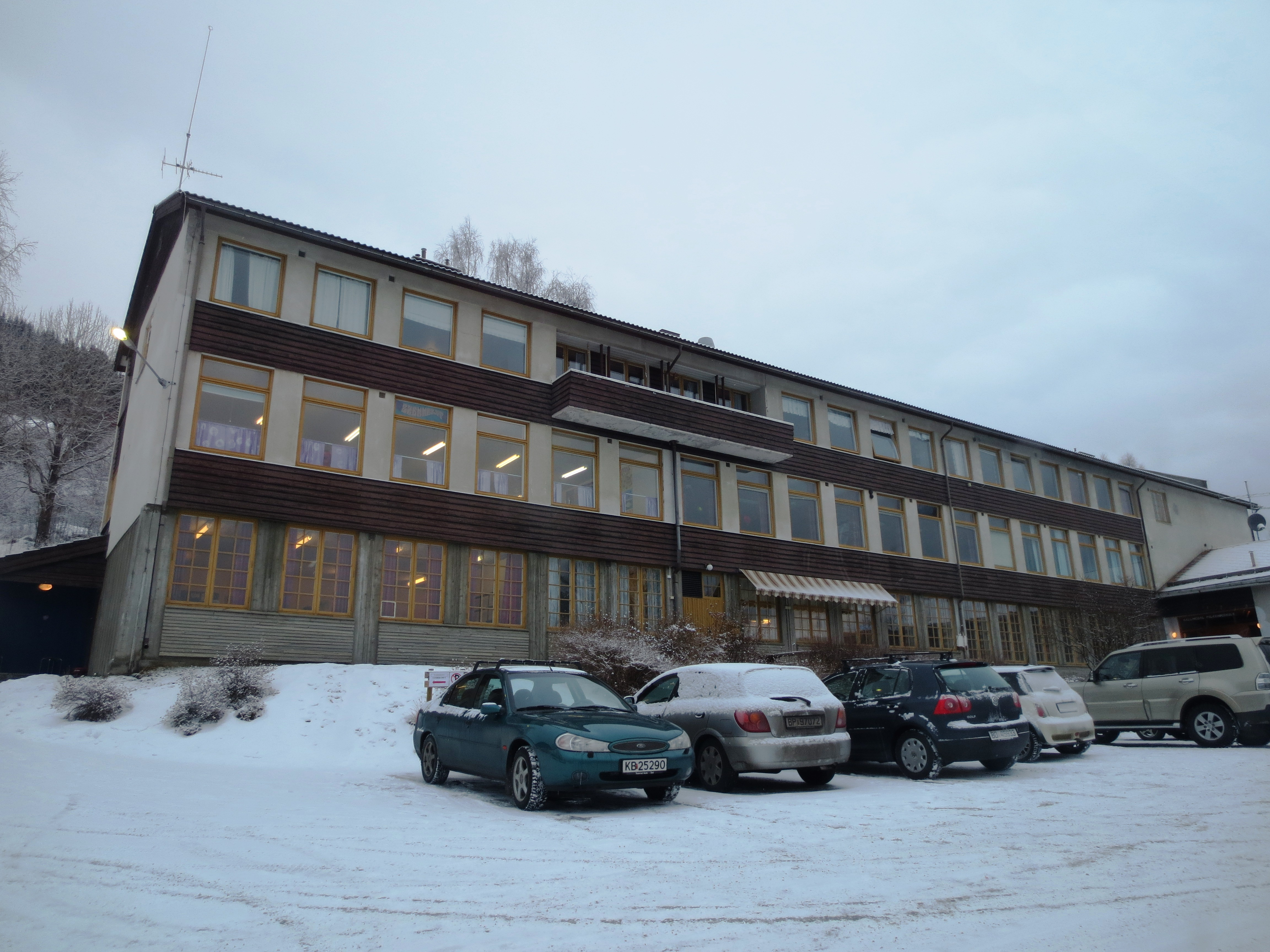 Hallingdal Folkehøgskule, a vocational School in Gol, Buskerud county, Norway